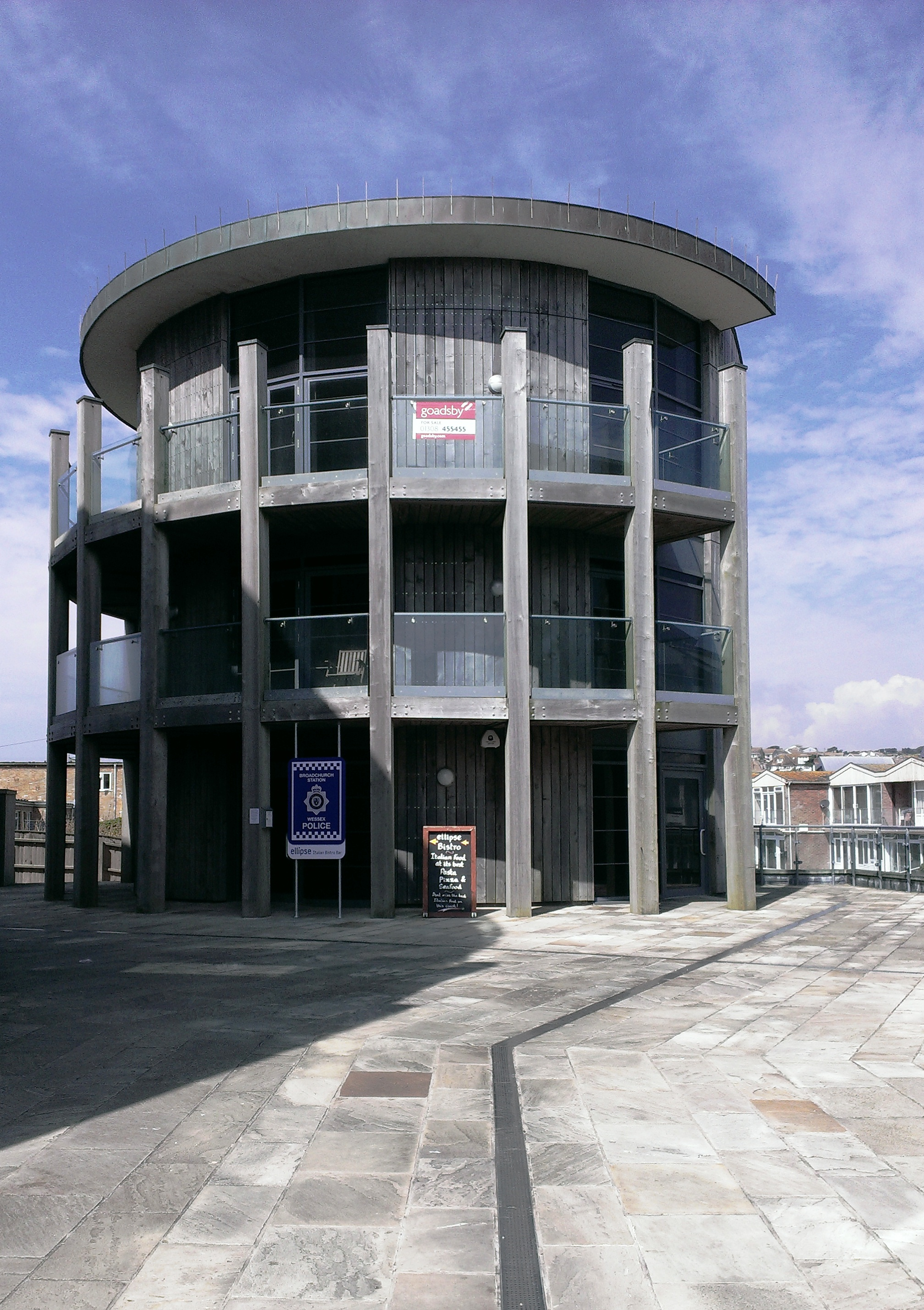 "Broadchurch Police Station" West Bay